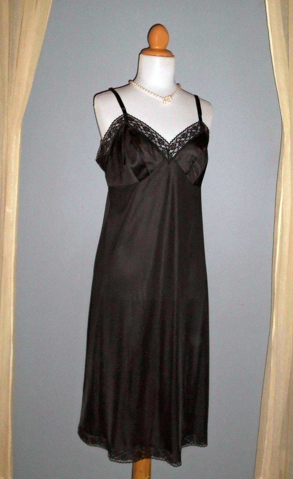 Black full slip from Vanity Fair